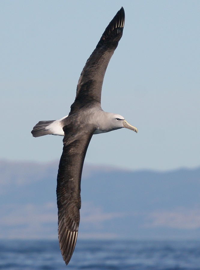 Author: Mark Jobling